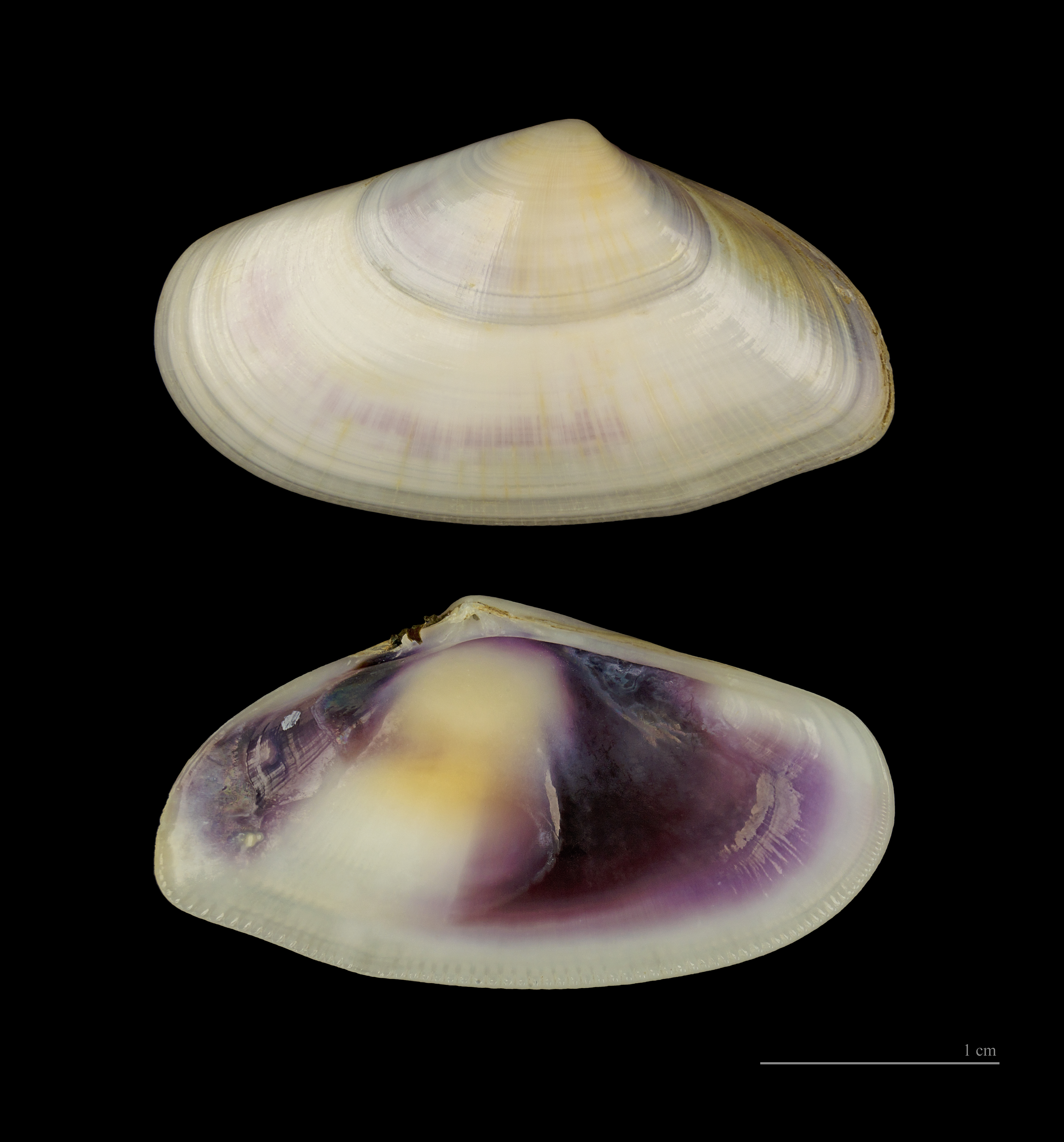 Donax trunculus - 2 views of the same specimen. Former collection of George Chernilevsky.